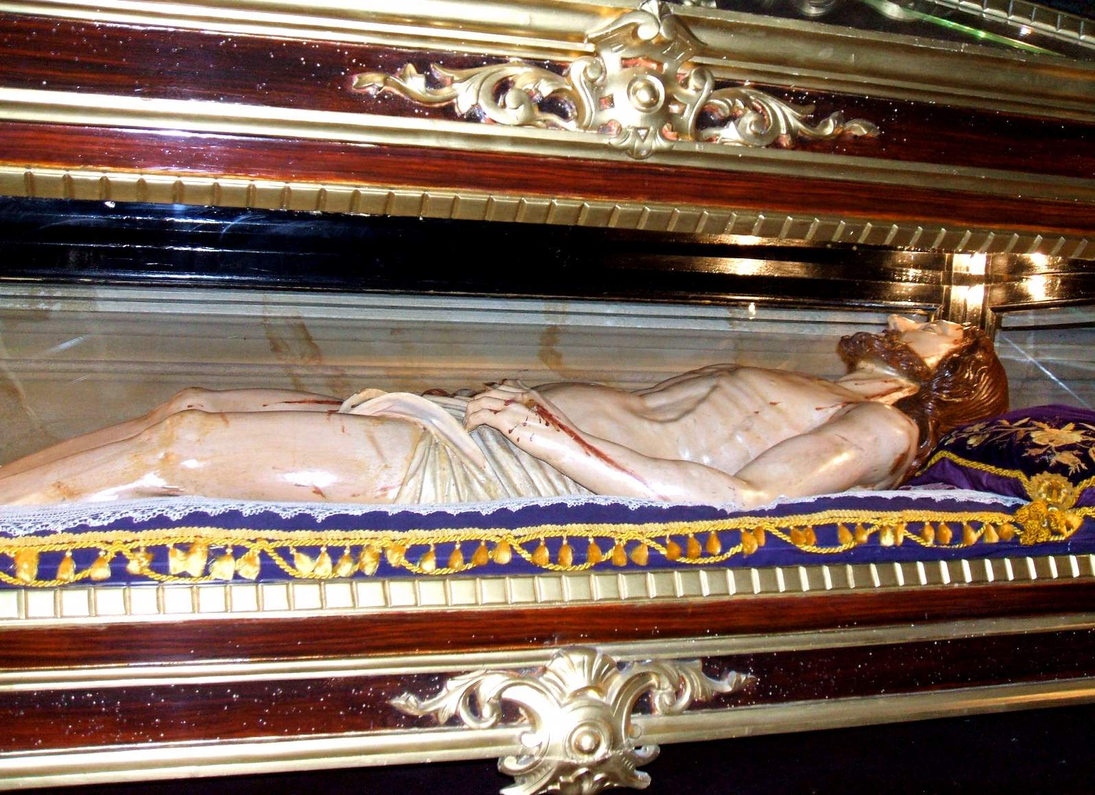 Cristo yacente en la Concatedral de San Pedro de Soria